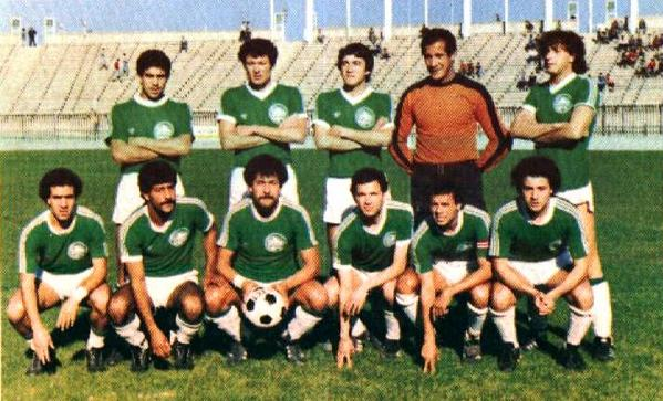 GC Mascara (Algerian Champion 1984)